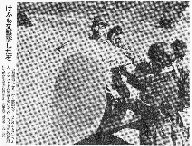 A Japanese Zero pilot marks his kills on his fighter under the watchful eyes of his unit's monkey mascot.